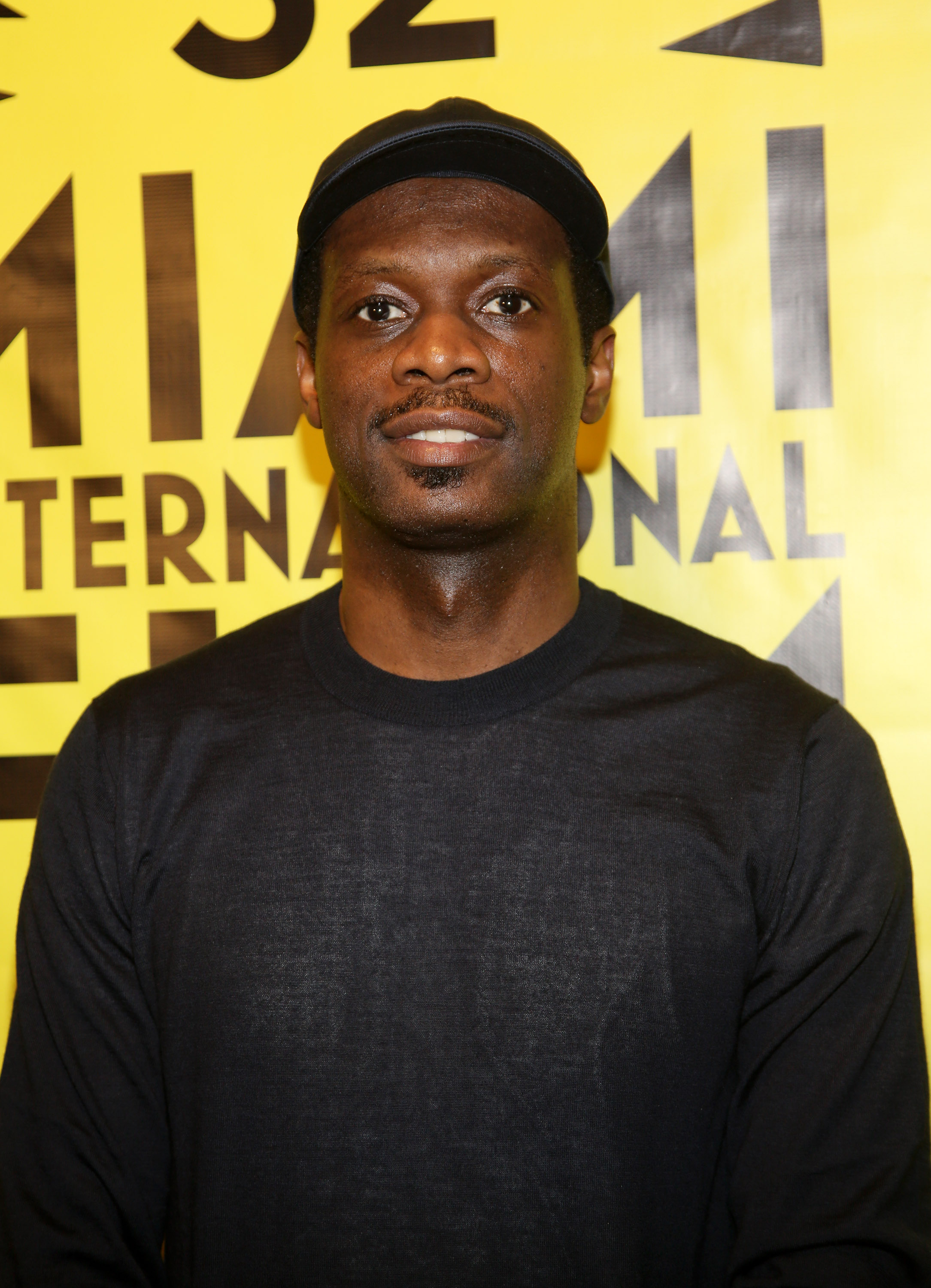 Pras - as one of the film's producers - at the Miami Film Festival's presentation of "Sweet Micky for President"